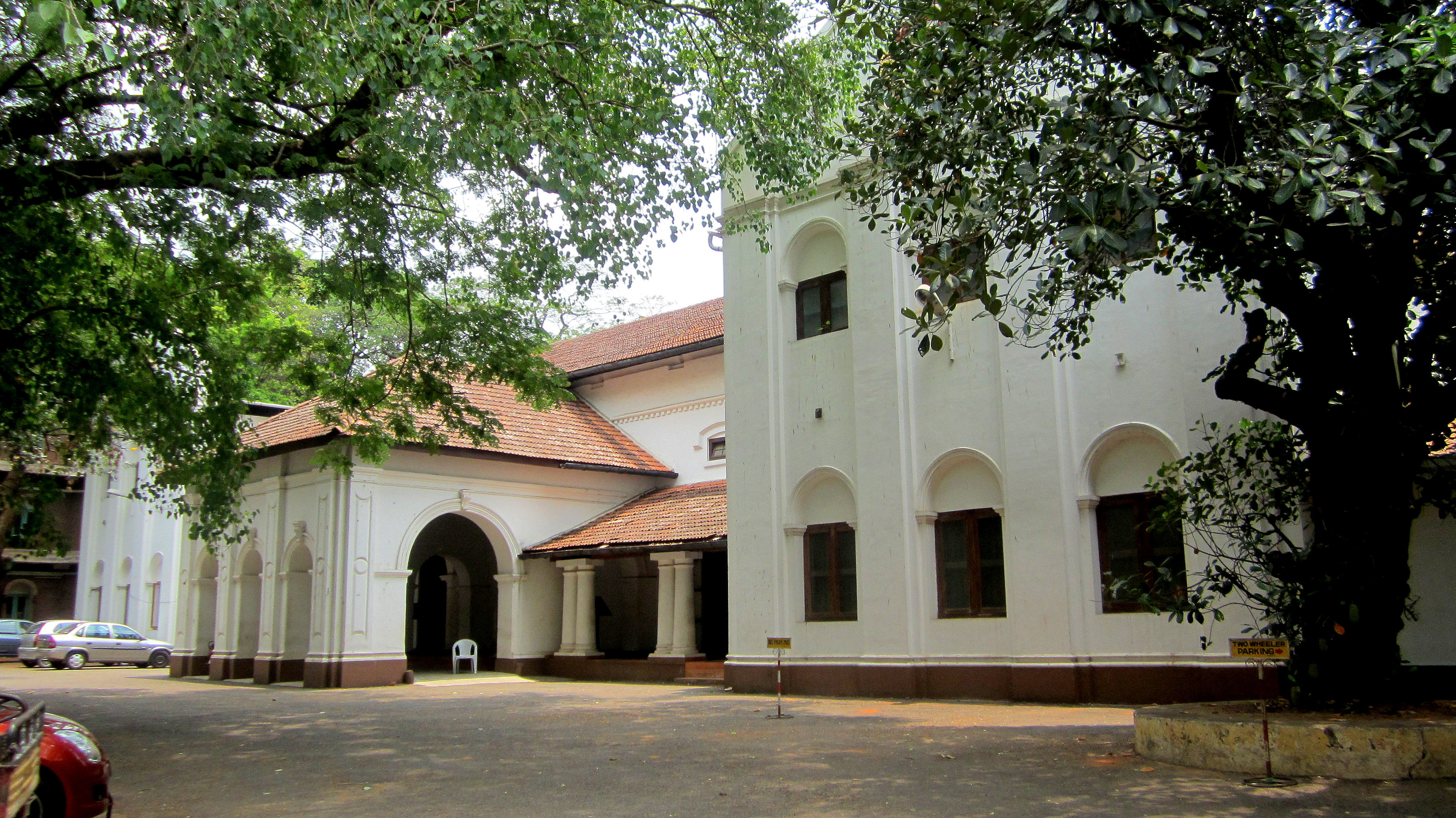 Kerala Sahitya Akademy building located in Thrissur city